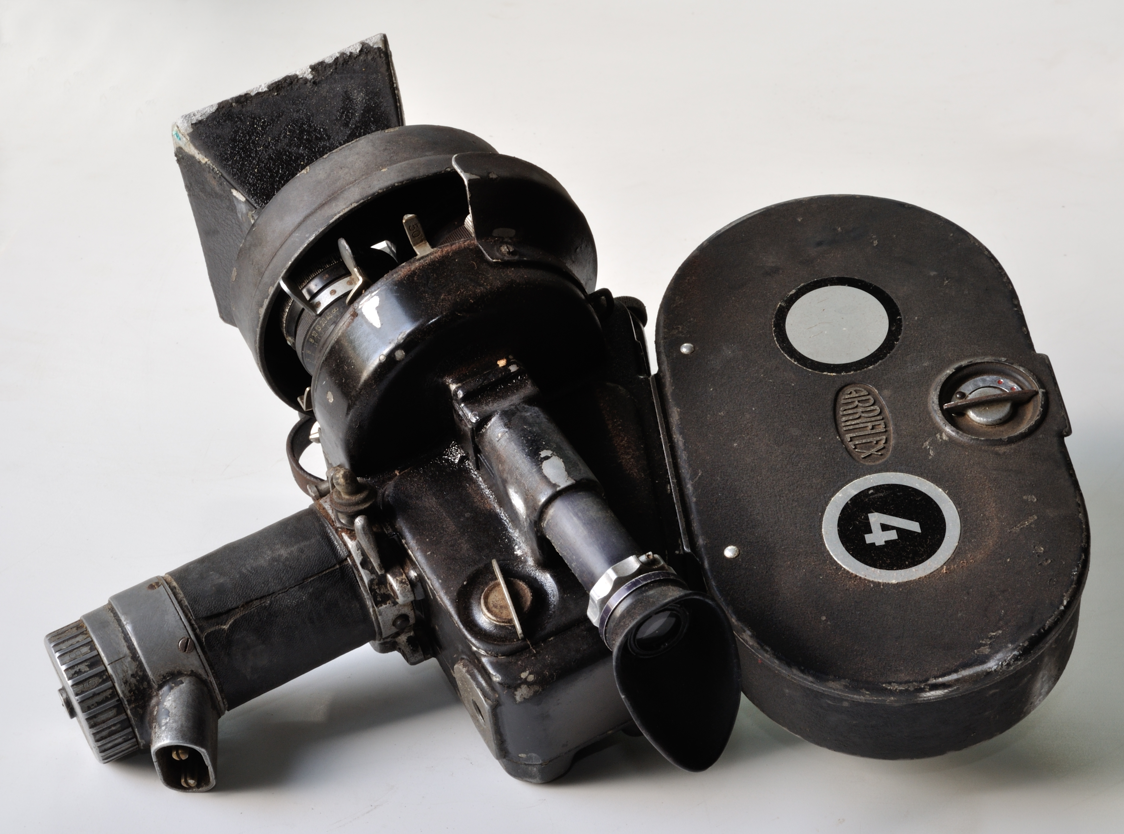 35 mm Cine camera.